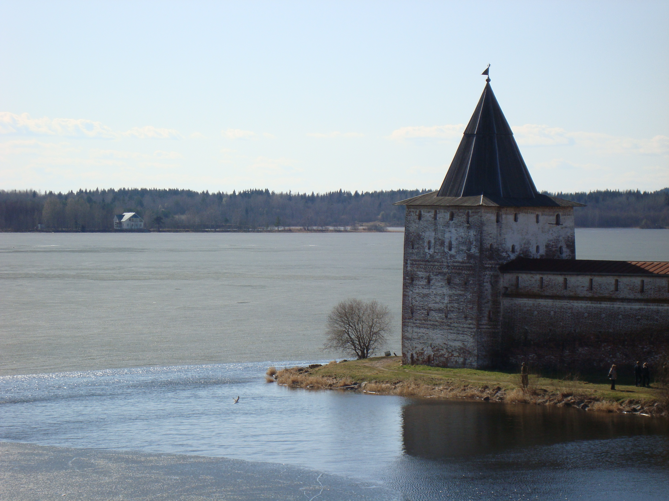 Kirillo-Belozersky Monastery Svitochnaya tower